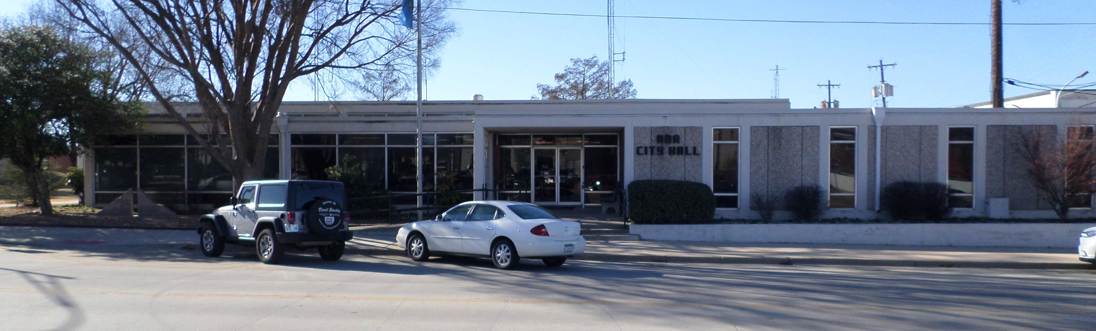 Ada City Hall, located at 231 S. Townsend Ave., Ada, Oklahoma.